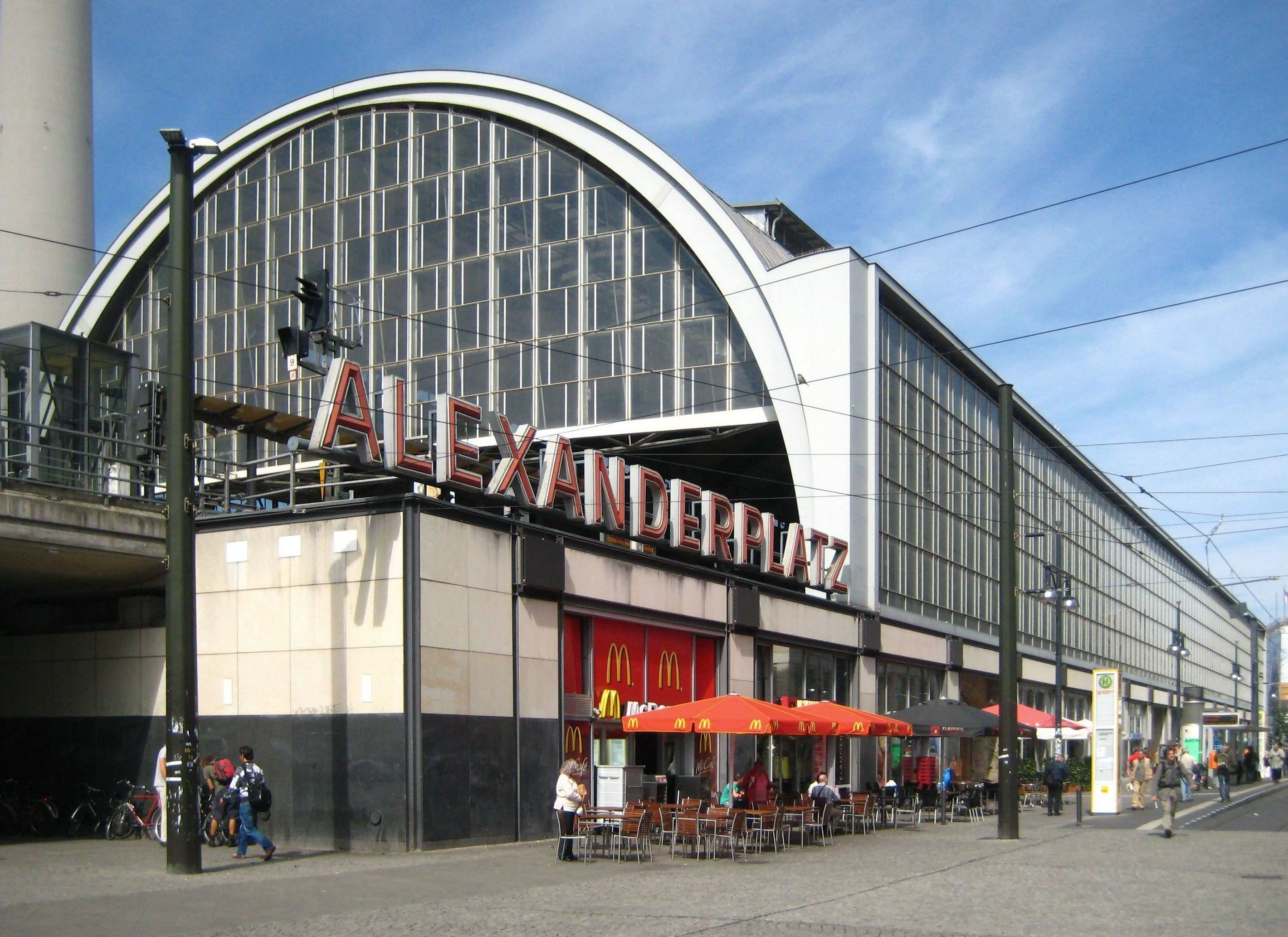 Railway and S-Bahn Station Alexanderplatz in Berlin-Mitte, built 1878 to 1882 to a design by Johann Eduard Jacobsthal. The whole complex of the Station Alexanderplatz (including three subway stations) has been designated as a historic landmark.